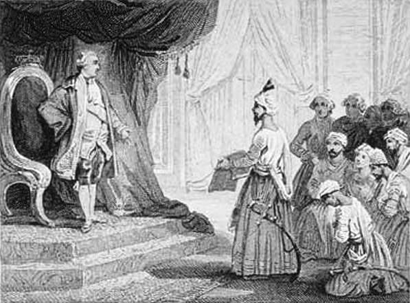 Louis XVI Receives the Ambassadors of Tipu Sultan, 1788. Dates: French 19th century.